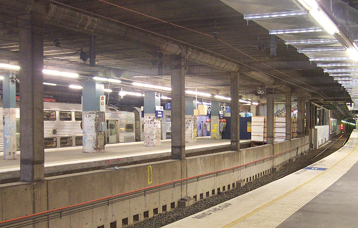 North Sydney Railway Station platforms during upgrade. A temporary walkway over one of the centre tracks can be seen. Platforms have been resurfaced and the tiling on the pillars has been removed.